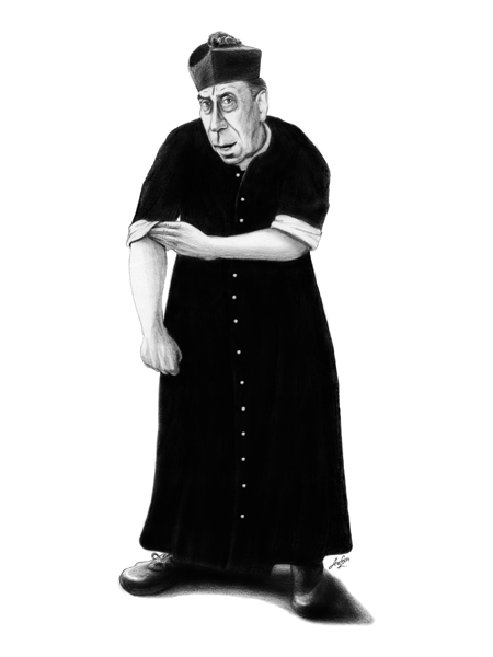 Don Camillo is ready